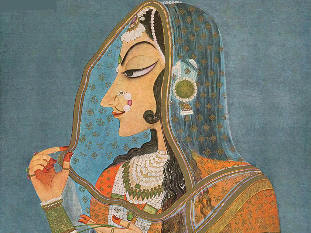 Bani Thani, A miniature, Kishengarh, Jaipur, Rajasthan